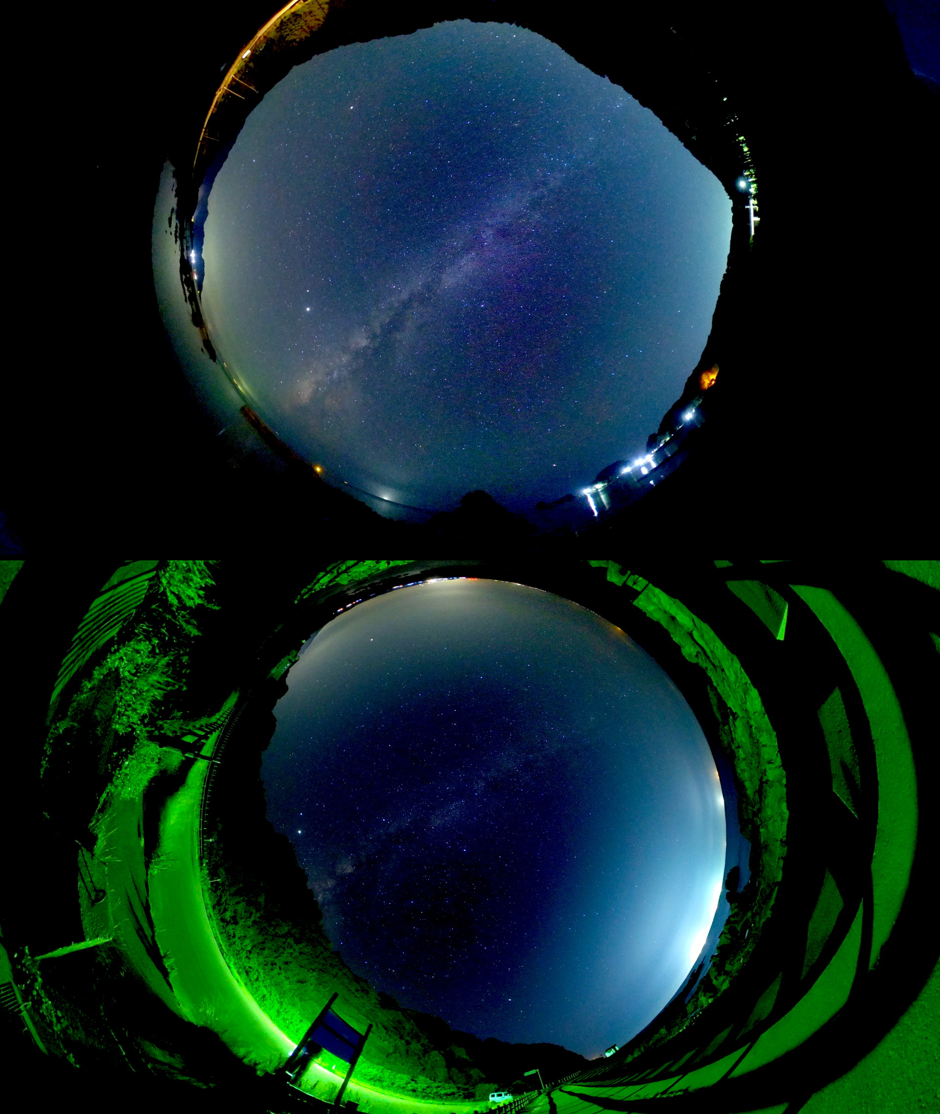 Shooting in an area with little light pollution above. Below is the light pollution caused by the city lights and the intense lighting of the squid fishing boat.